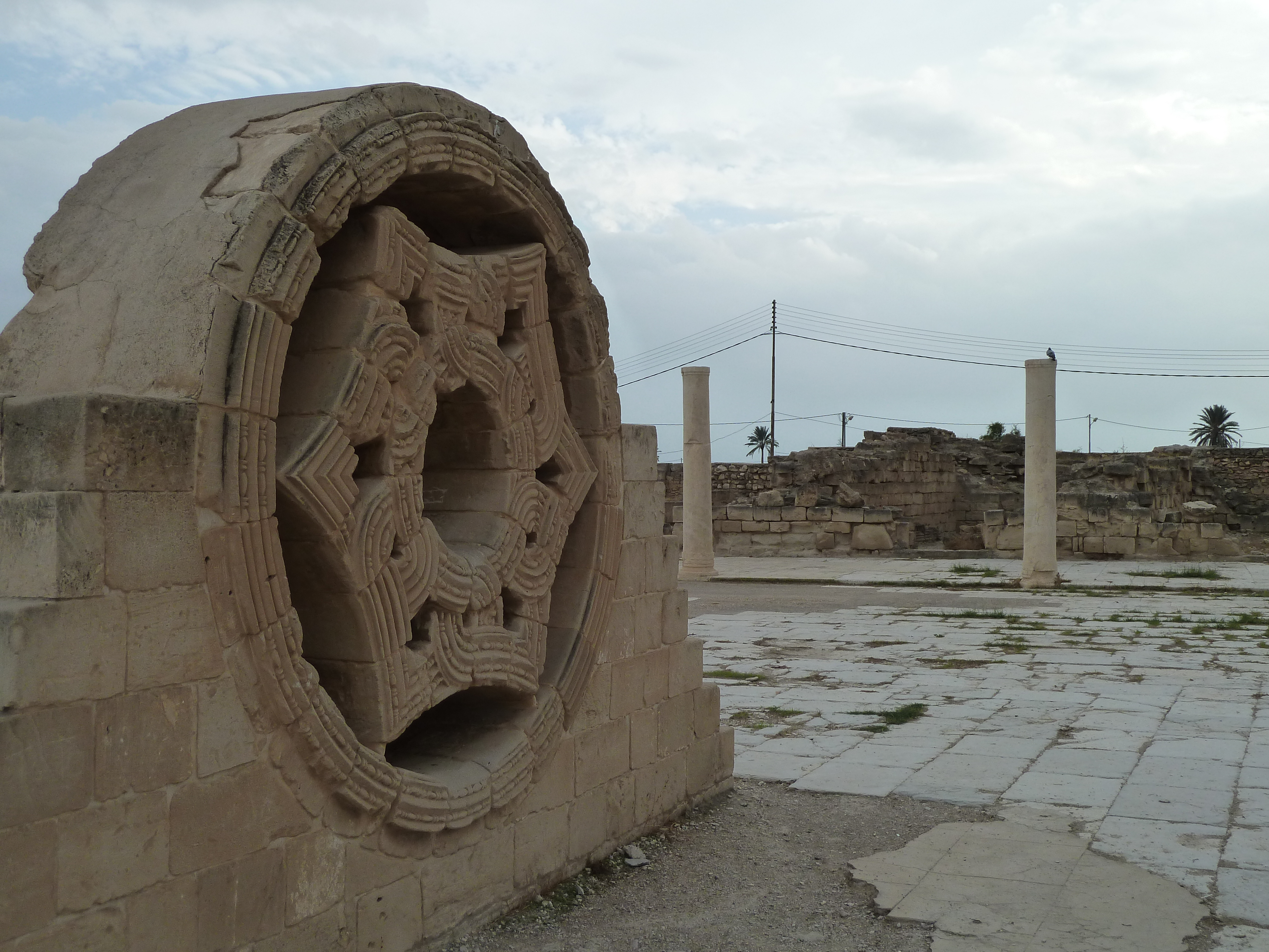 Hisham's Palace on a rainy day, Jericho